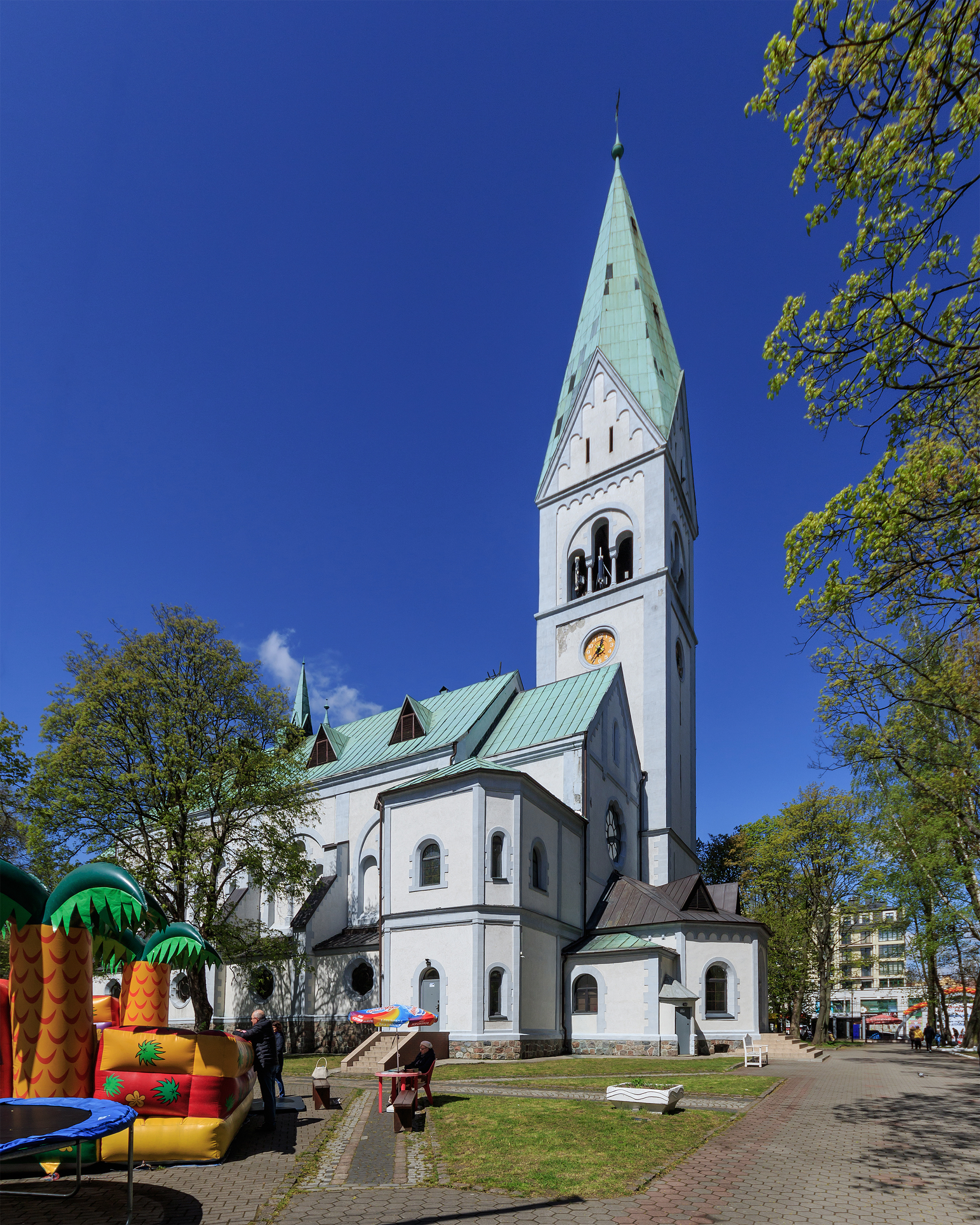 Puppet theatre (former Queen Louise Memorial Church) in Amalienau in Kaliningrad formerly Königsberg, Kaliningrad Oblast (Russia).